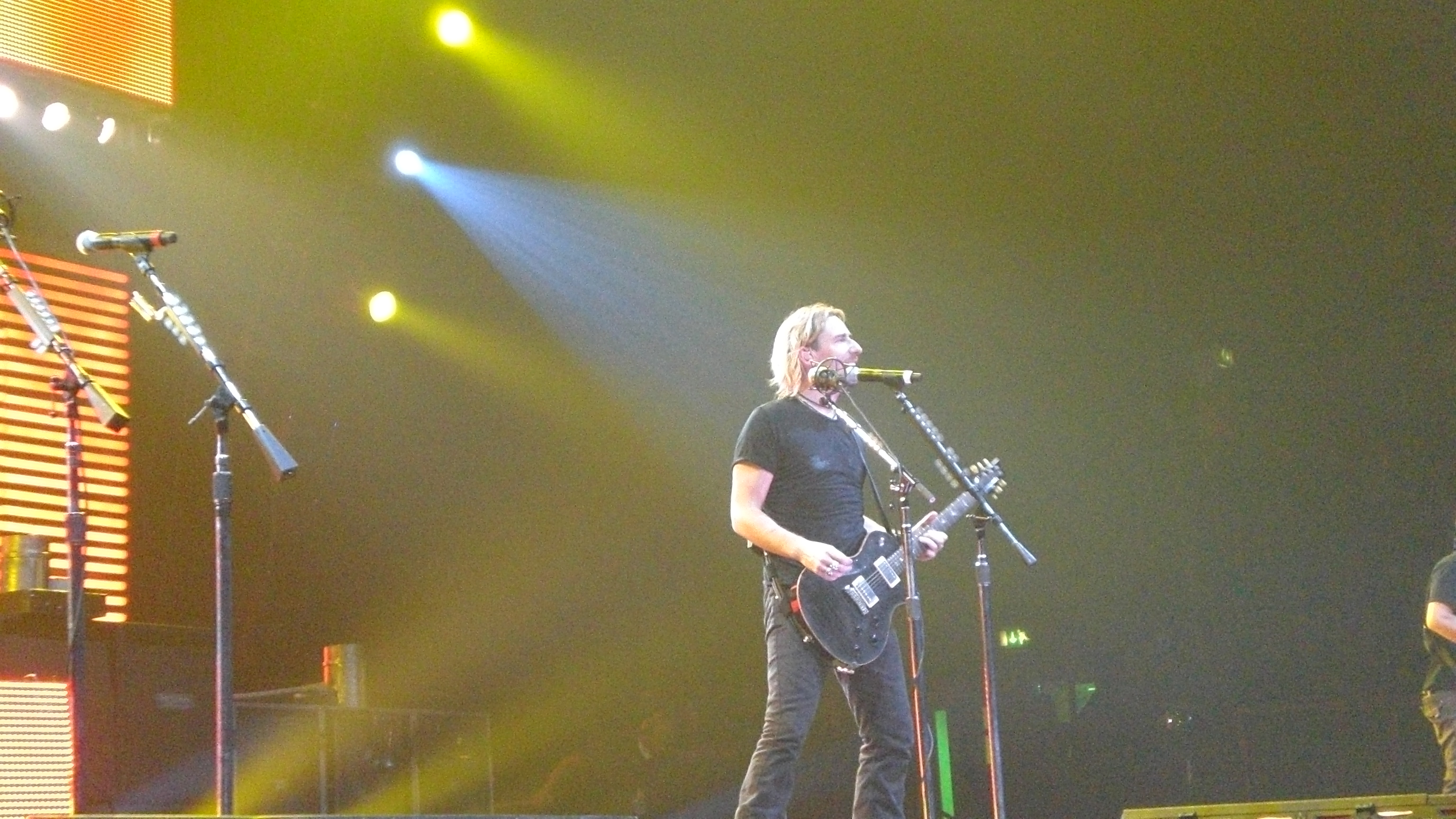 Chad Kroeger on stage with Nickelback in London, September 2008.